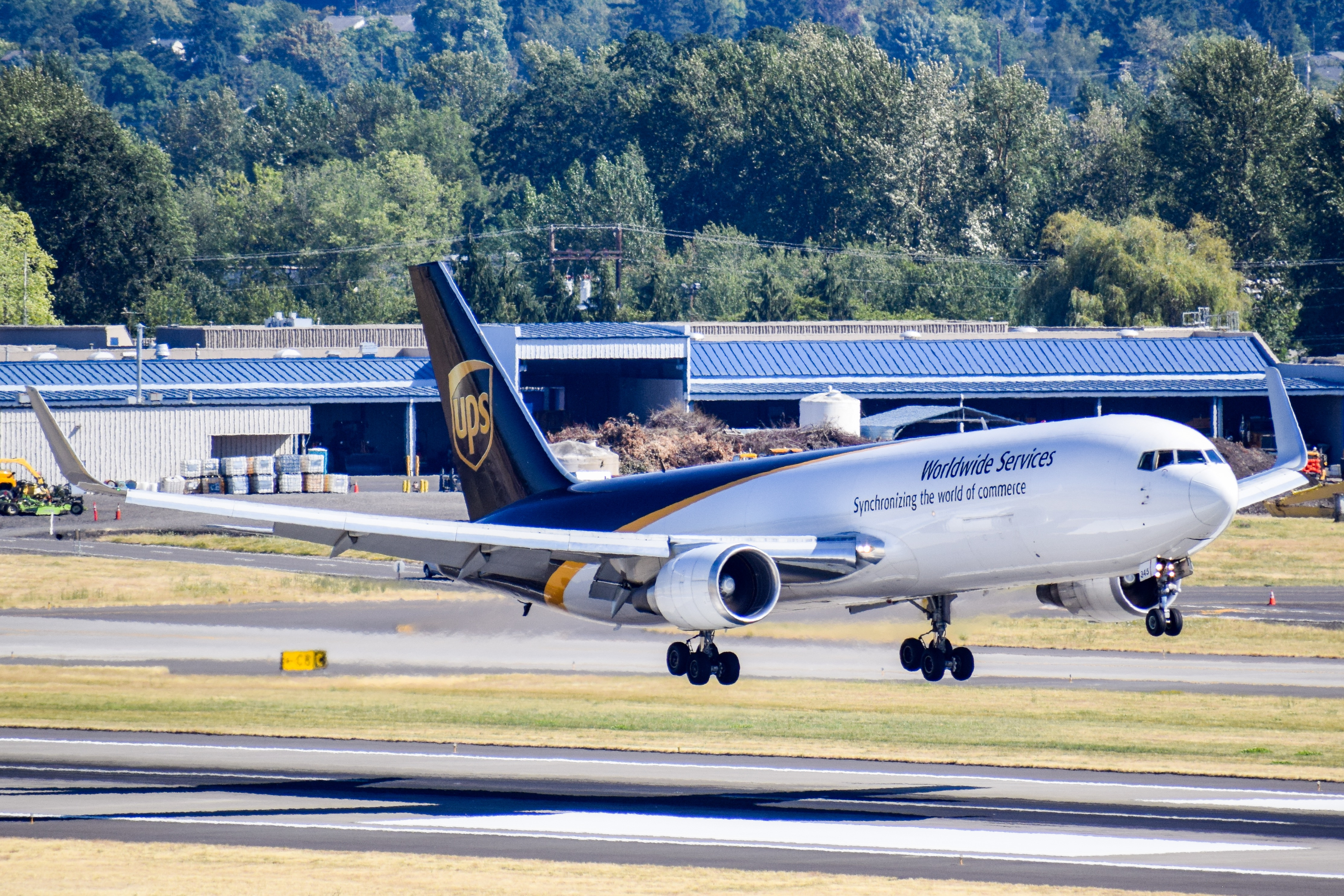 A UPS aircraft about to touchdown in Portland